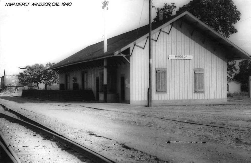 Postcard of Windsor station in 1940, published around 1980